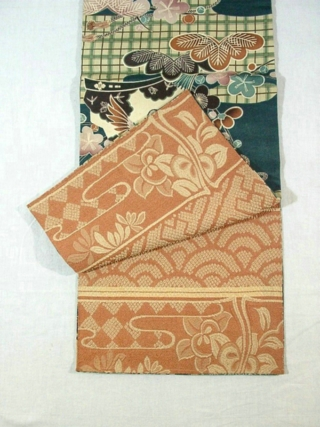 This is a vintage chūya obi. One side is made of plain silk, and has exotic dyed pattern - 'dōkyō'(copper mirror), mallet and other traditional motifs are dyed. Another side is 'kōkechi', which has exotic woven pattern.